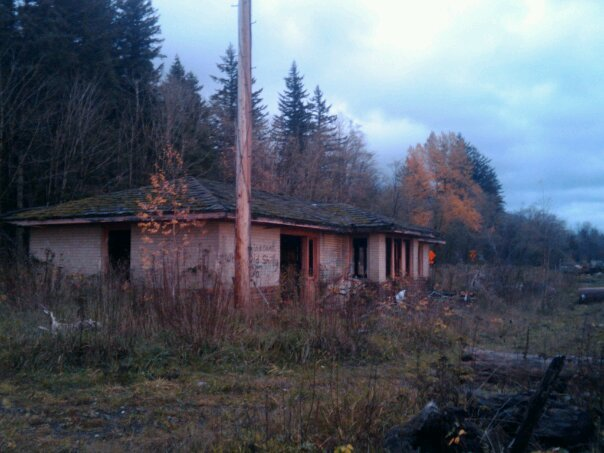 Kanaskat, WA. This photo was taken from the track side when the depot was active to match the angle the photo taken in Ruth Trueblood Eckes "Rail Tales" (1995) 1rst Ed. p. 93. The railroad tracks used to run in front of the building. The depot was abandoned in 1959 when the tracks were moved 350ft north, across the highway and up the hill.